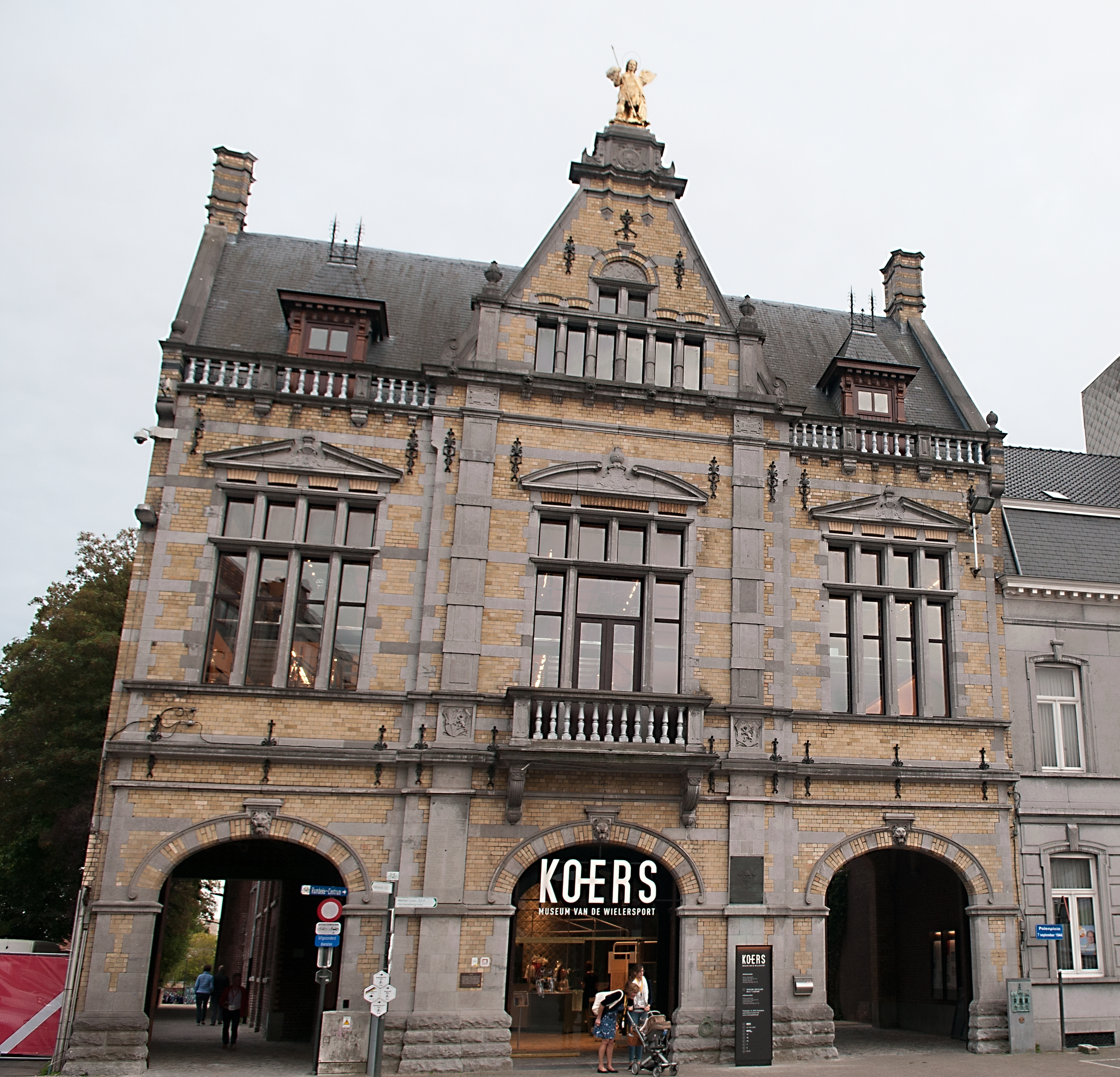 Front facade KOERS. Museum of Cycle Racing, before used as fire-station